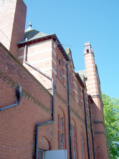 Old Building of WHGS from North side